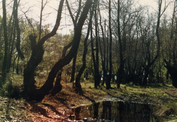 Turkish Sweetgum (Liquidambar orientalis) trees in southwestern Turkey (between Marmaris and Dalaman)